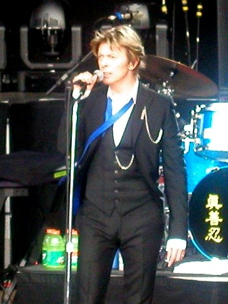 David Bowie at the Area2 Festival, San Francisco